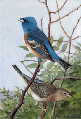 Title: Birds of the Rockies Author: Leander Sylvester Keyser Release Date: July 5, 2008 [eBook #25973] Language: English